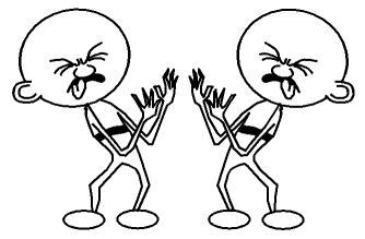 elements with same charge recoils